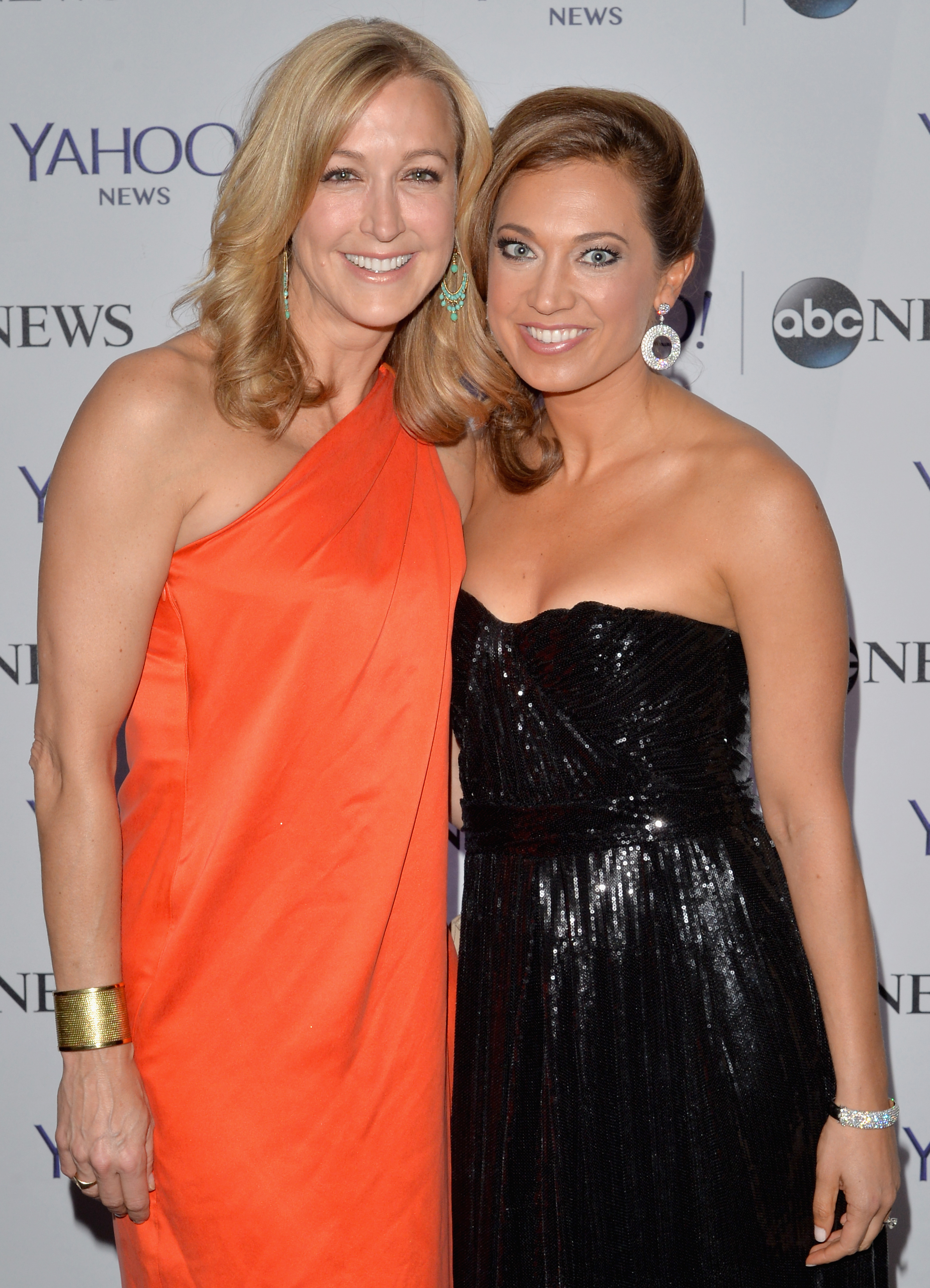 WASHINGTON, DC - MAY 03: Lara Spencer (L) and Ginger Zee attend the Yahoo News/ABCNews Pre-White House Correspondents' dinner reception pre-party at Washington Hilton on May 3, 2014 in Washington, DC. (Photo by Andrew H. Walker/Getty Images for Yahoo News)